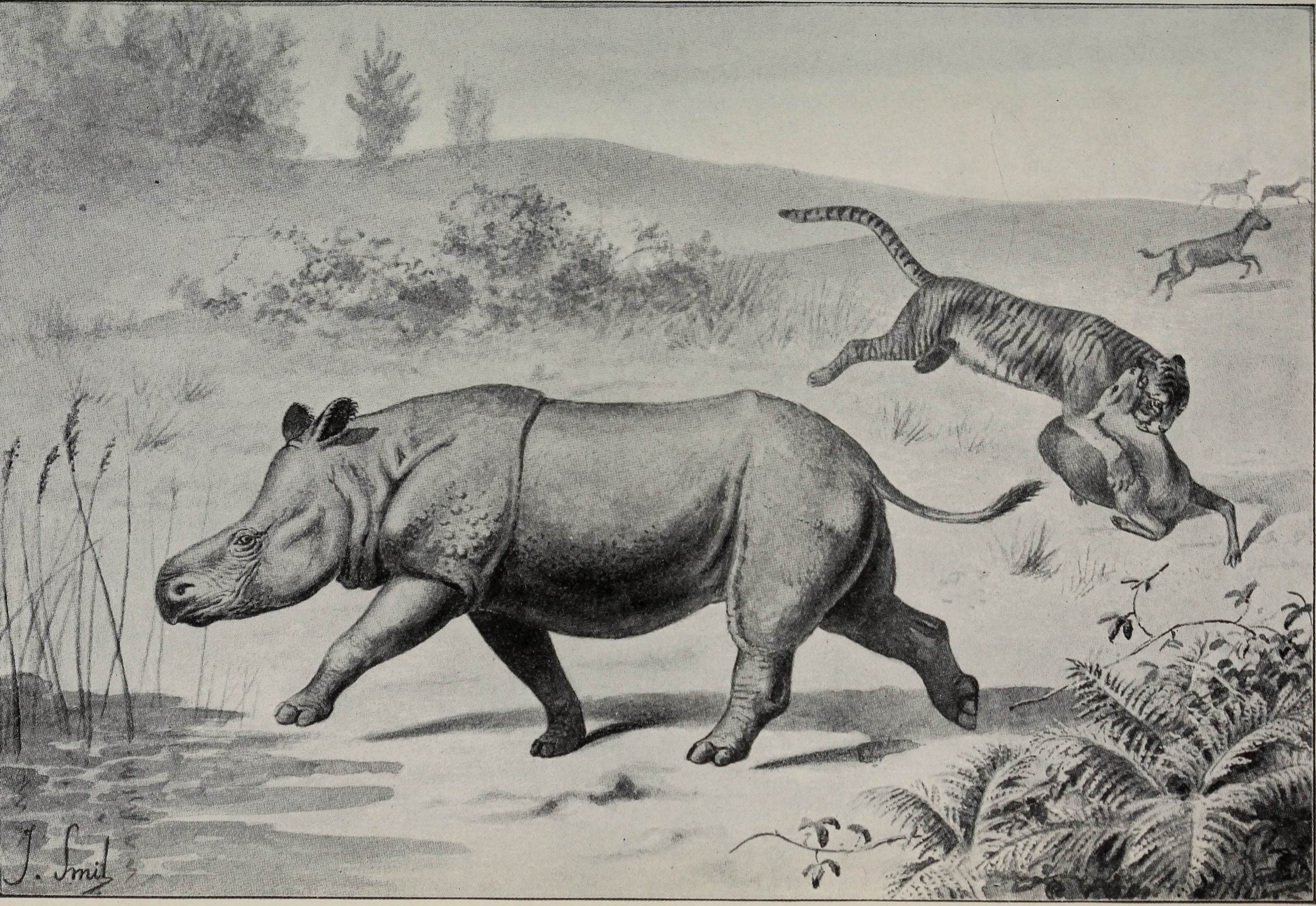 Title: The Badland formations of the Black Hills region Year: 1910 (1910s) Authors: O'Harra, Cleophas C. (Cleophas Cisney), 1866-1935 Subjects: Geology; Geology, Stratigraphic; Vertebrates, Fossil Publisher: Rapid City, S. D. (The Daily Journal) Text Appearing Before Image: ' Text Appearing After Image: ' Description Shown are Metamynodon, Hyracodon, and Dinictis in the Oligocene Badlands National Park